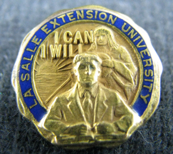 A lapel pin offered by La Salle Extension University (Chicago, Illinois) to graduates of its distance-learning courses.